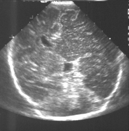 Transfontanellar sonogram of Hemimegalencephaly in a neonate, coronal view